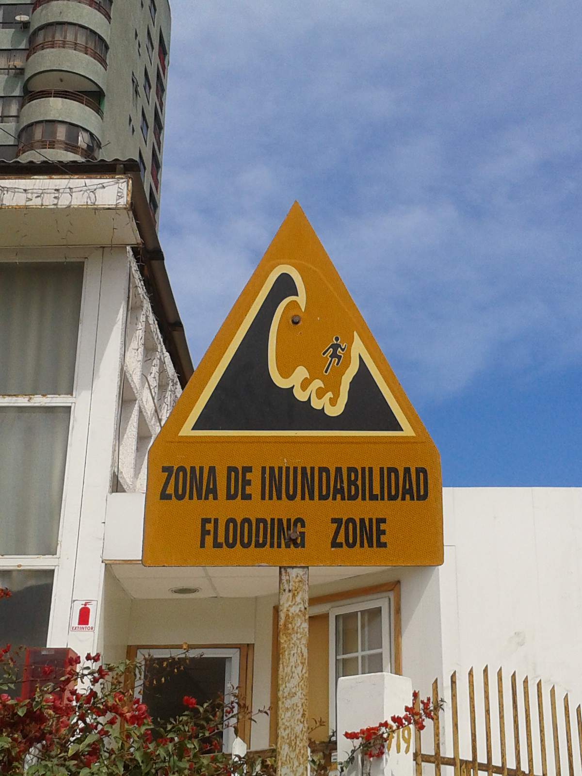 Signage that indicates that this zone risks to be flooded by a tsunami. Iquique, like other cities along the Pacific coast, is susceptible to flooding by tsunamis.